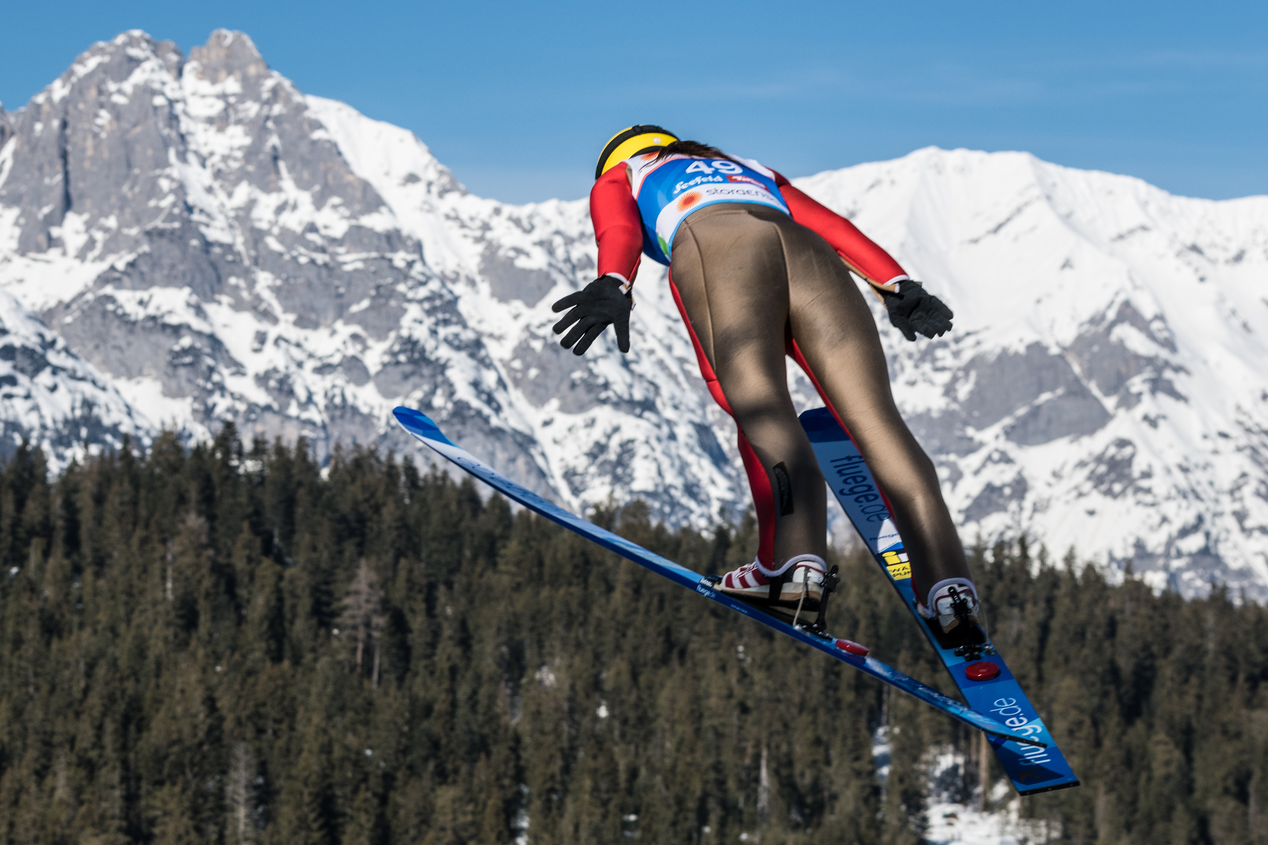 FIS Nordic World Ski Championships Seefeld 2019 - Training ladies ski jump HS109. Picture shows Sofia Tikhonova (RUS).